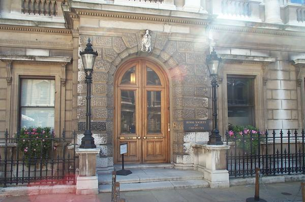 Royal Society of Chemistry 2004-08-07. Copyright © Kaihsu Tai.